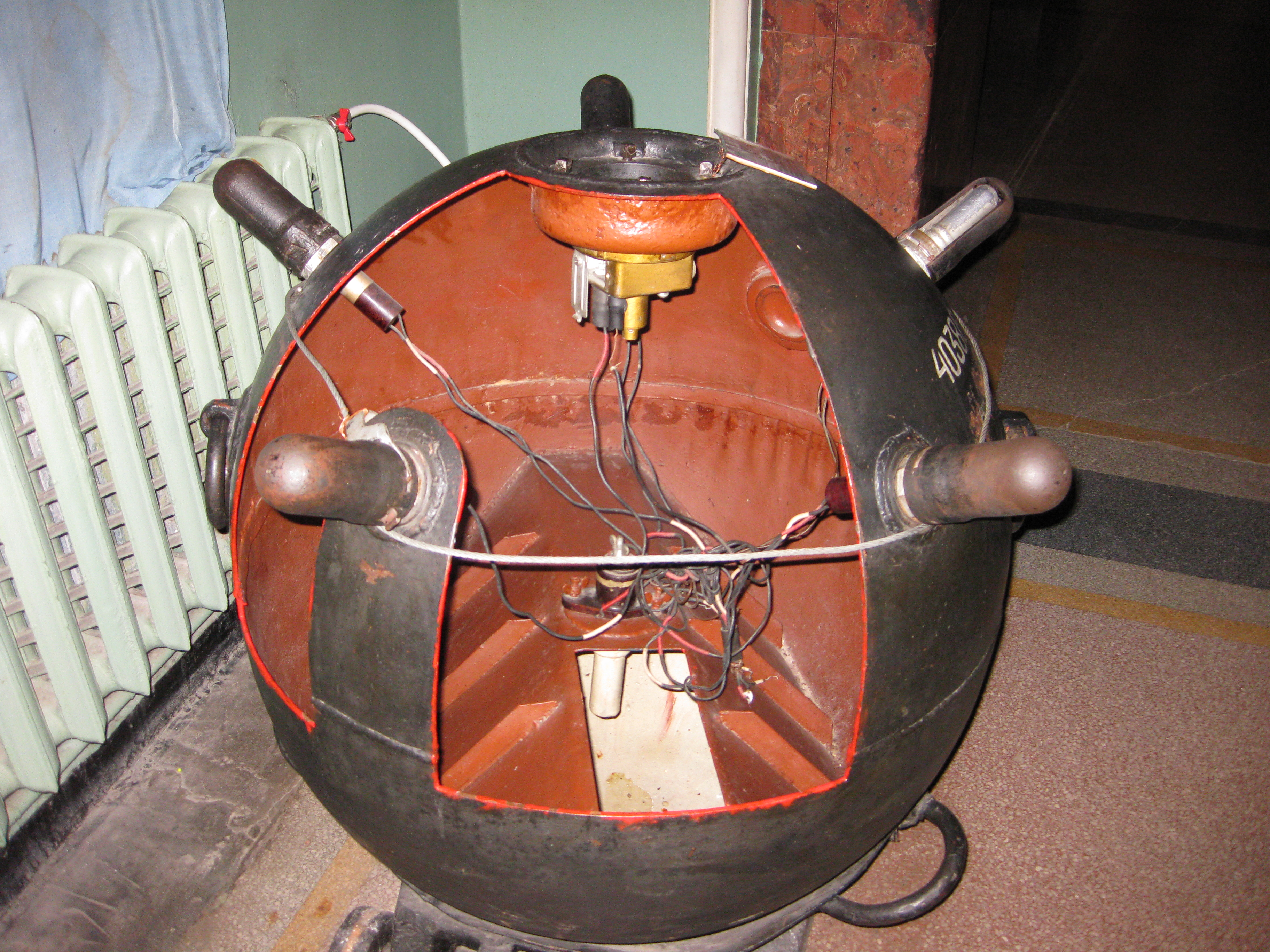 Structure of Naval mine